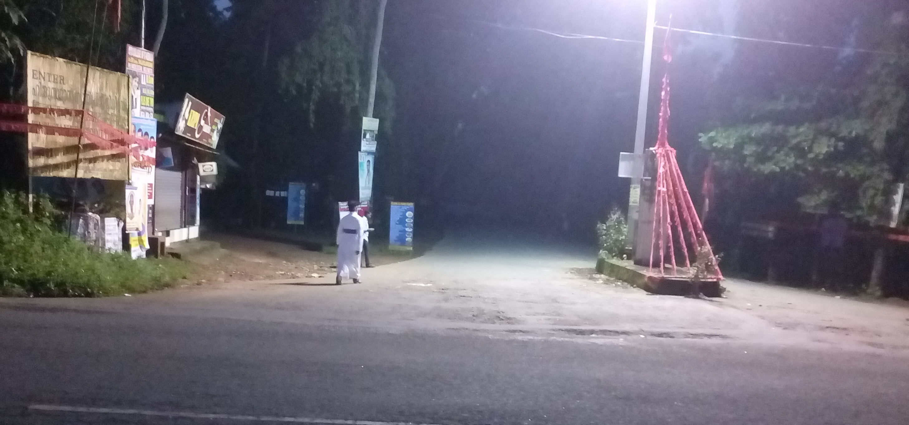 The entrance road view of Hindustan Newsprint Limited Kottayam in Moorkattilpady at early morning.